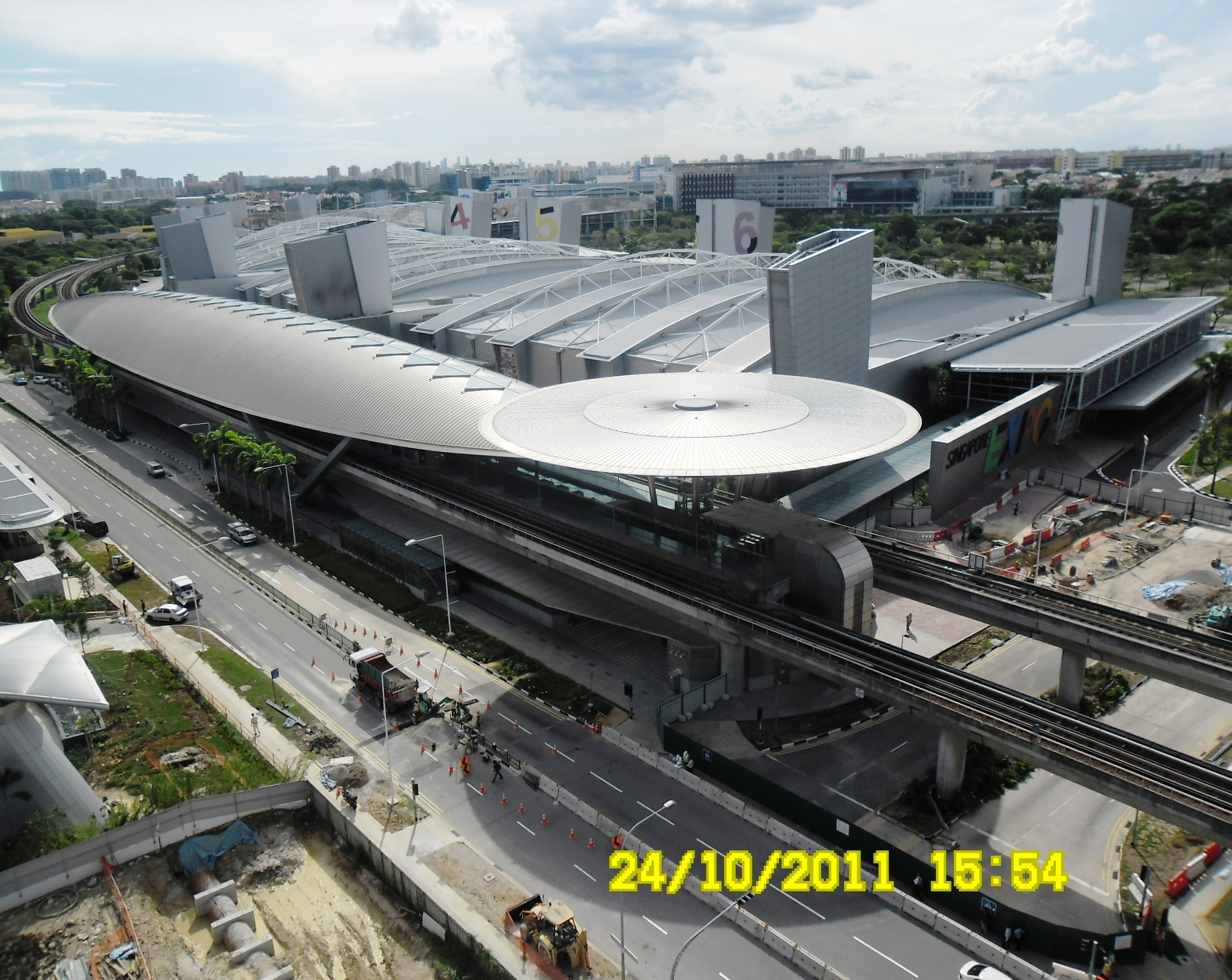 Expo MRT Station